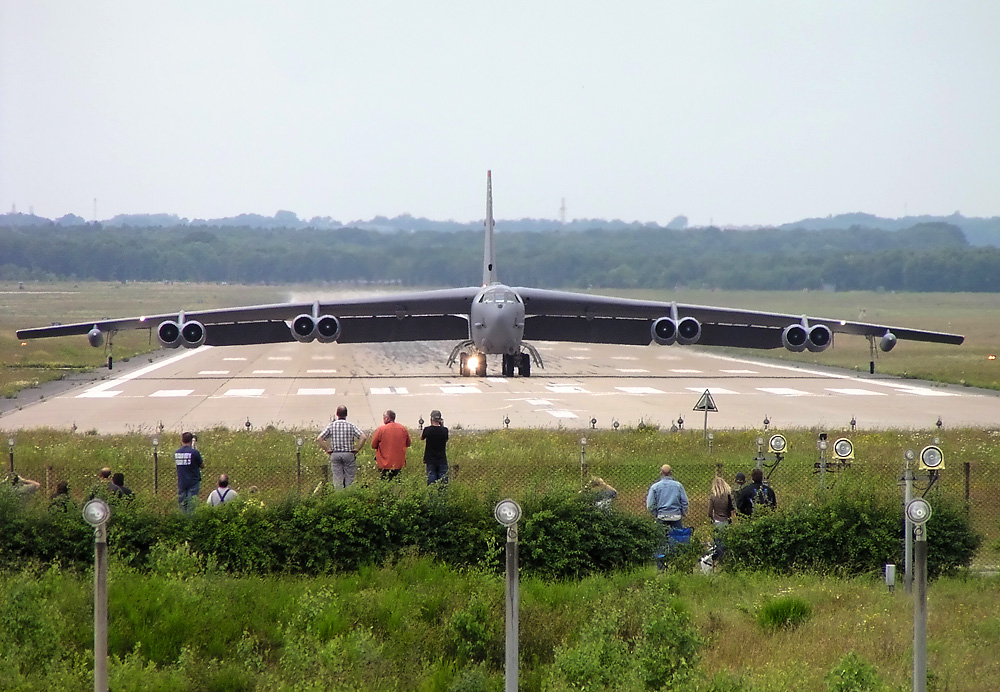 US Air Force Boeing B-52H (60-0059), Geilenkirchen AB, Germany